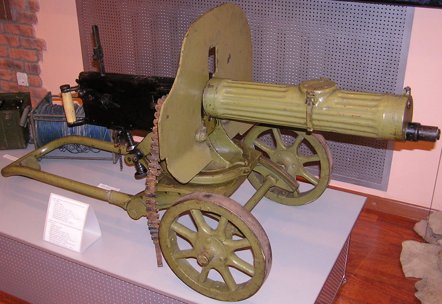 Museum of the History of Donetsk militsiya